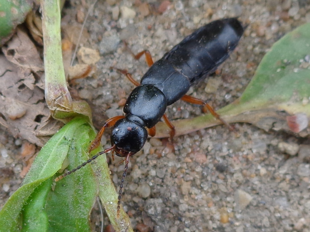 Ocypus brunnipes. Found in Riga town, Latvia